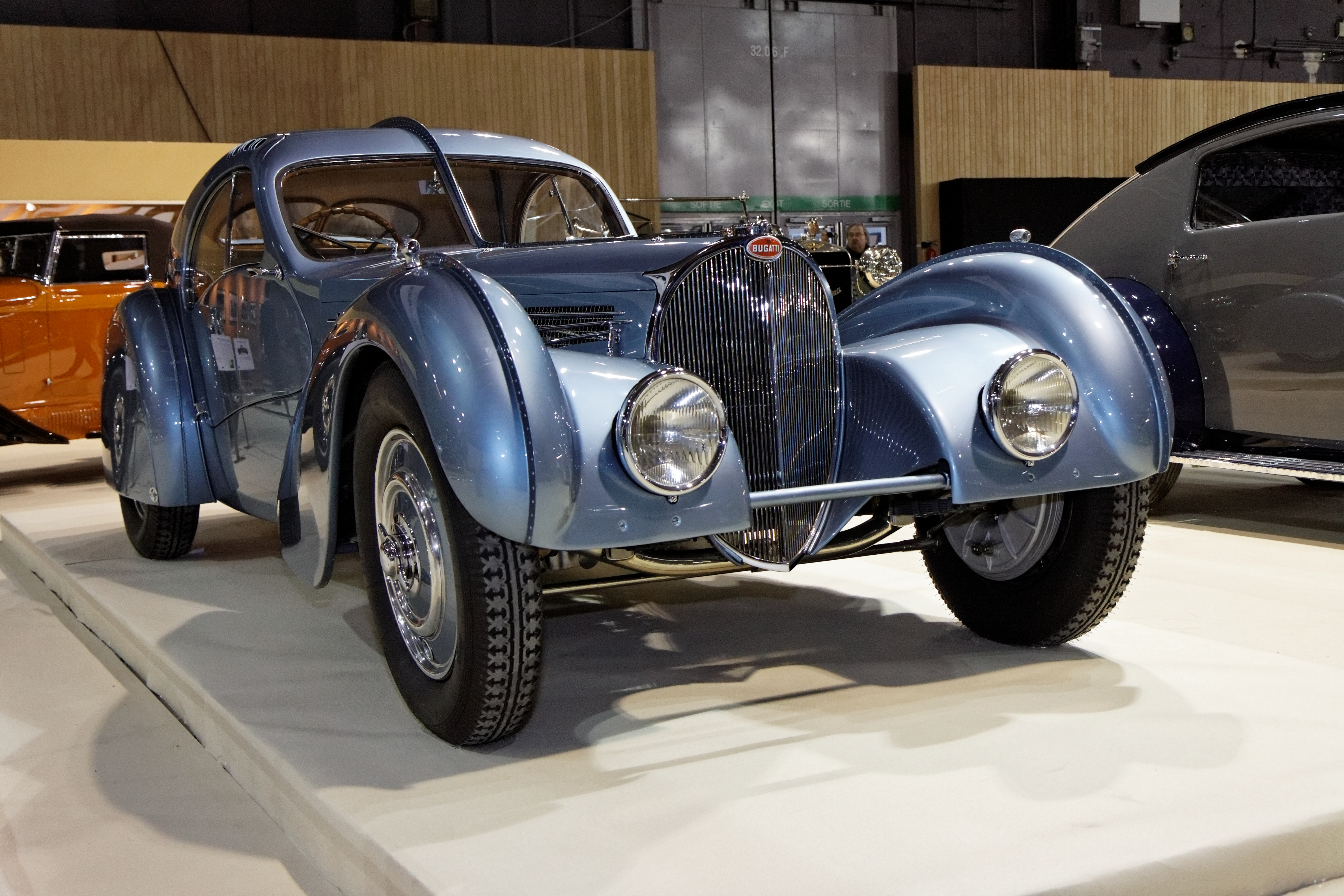 Bugatti type 57SC Atlantic